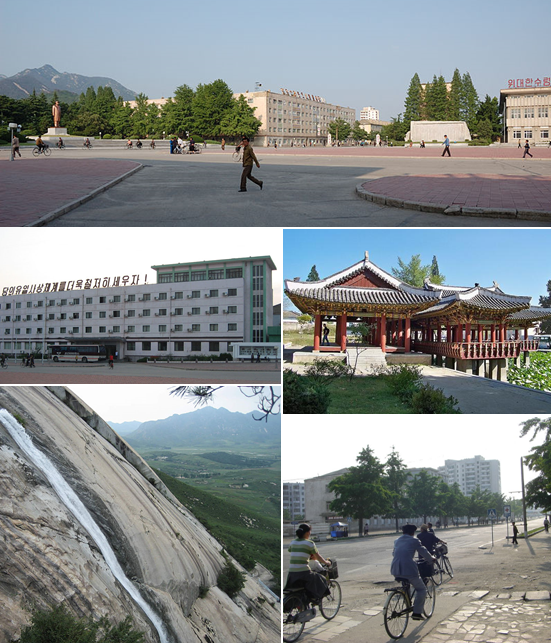 Montage of Haeju City, DPRK.